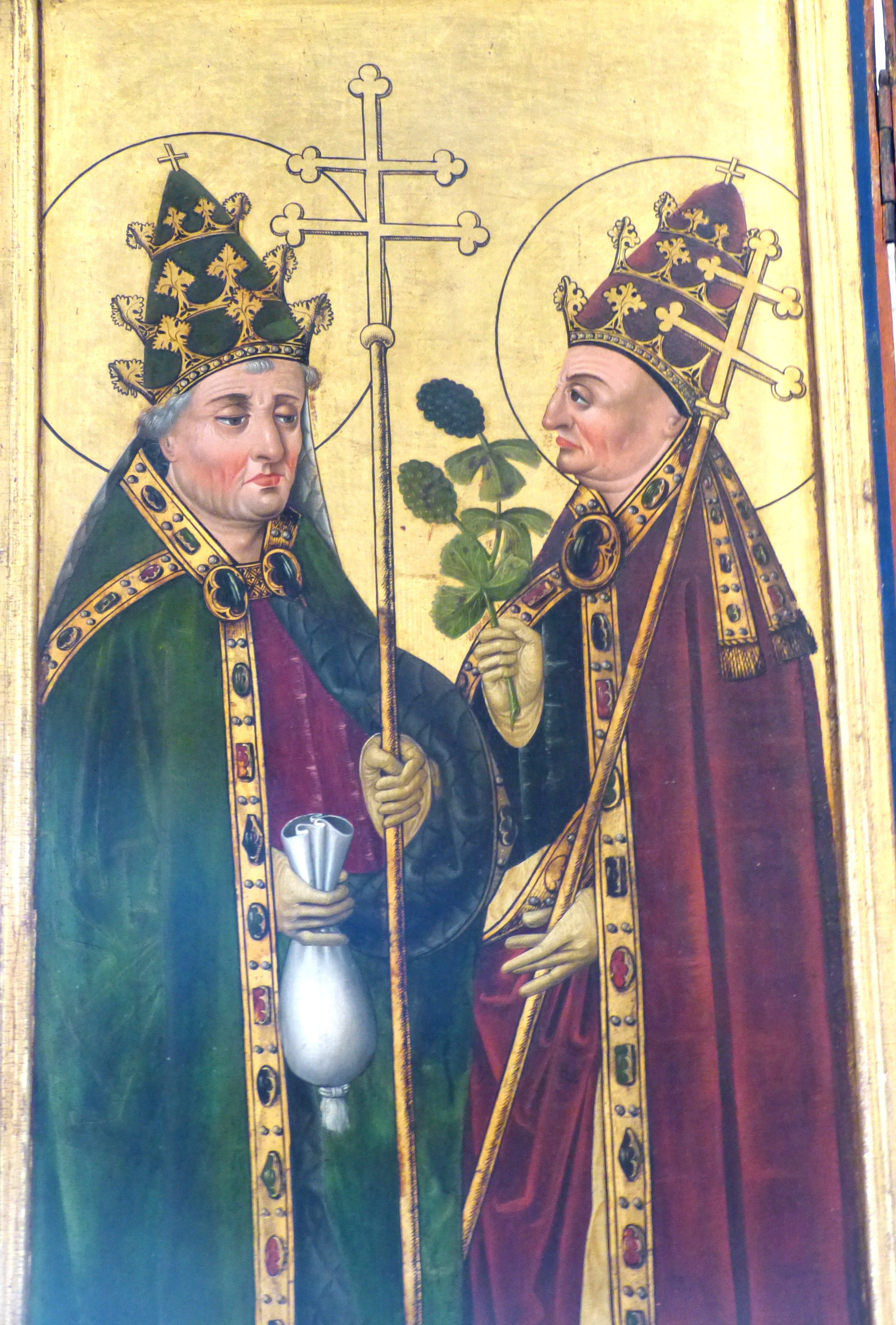 Schwabach - City Church. Altar of Saint Sebastian ( 1490 ) - Left wing: Two holy popes; to the right pope Urbanus I holding a hops plant.